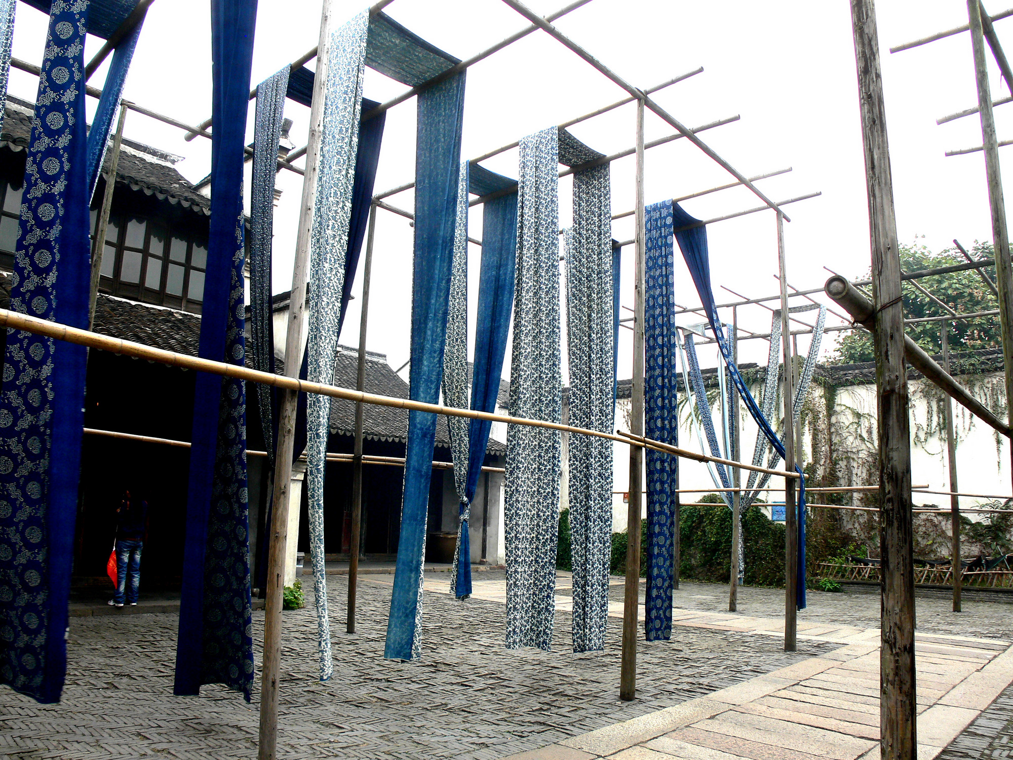 Blue cloth made in Wuzhen